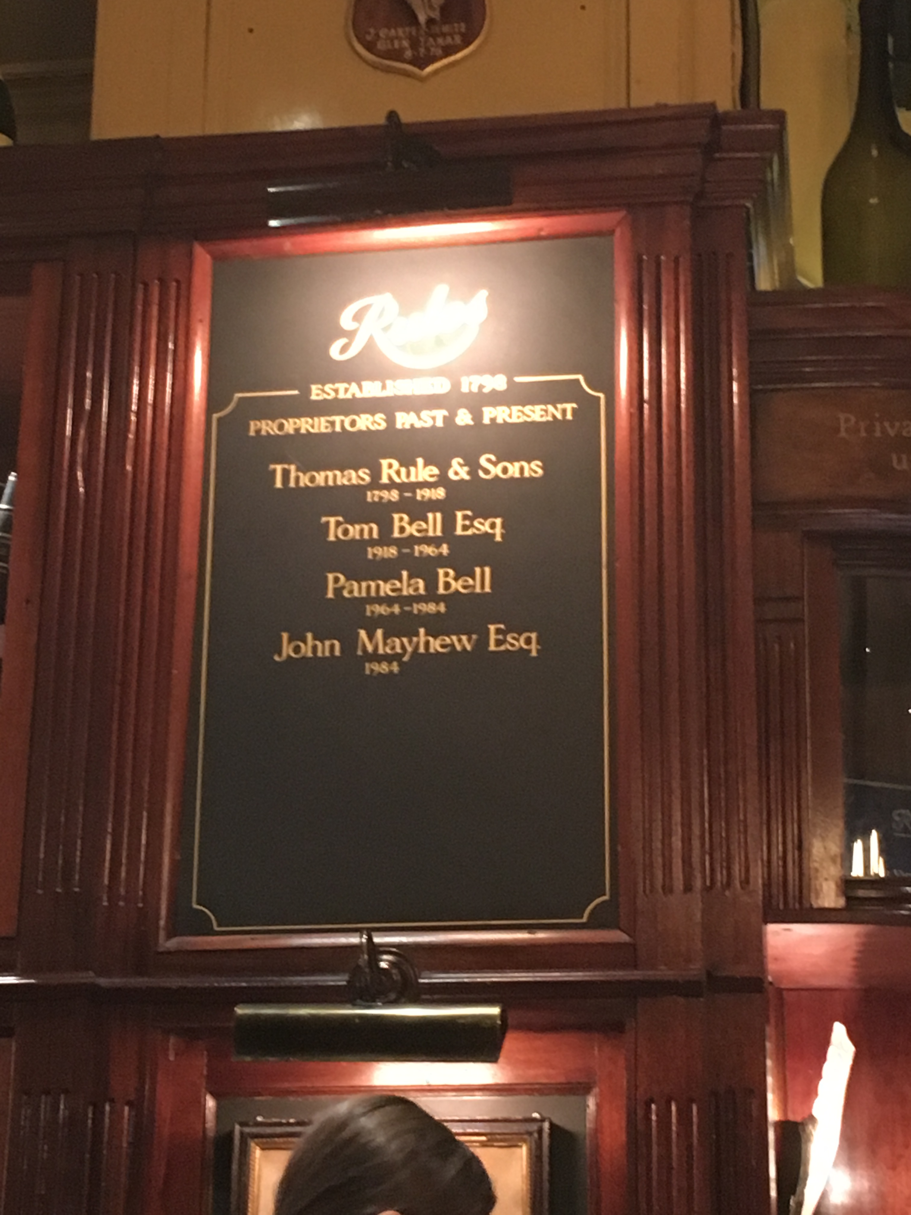 List of owners since the founding in 1798.